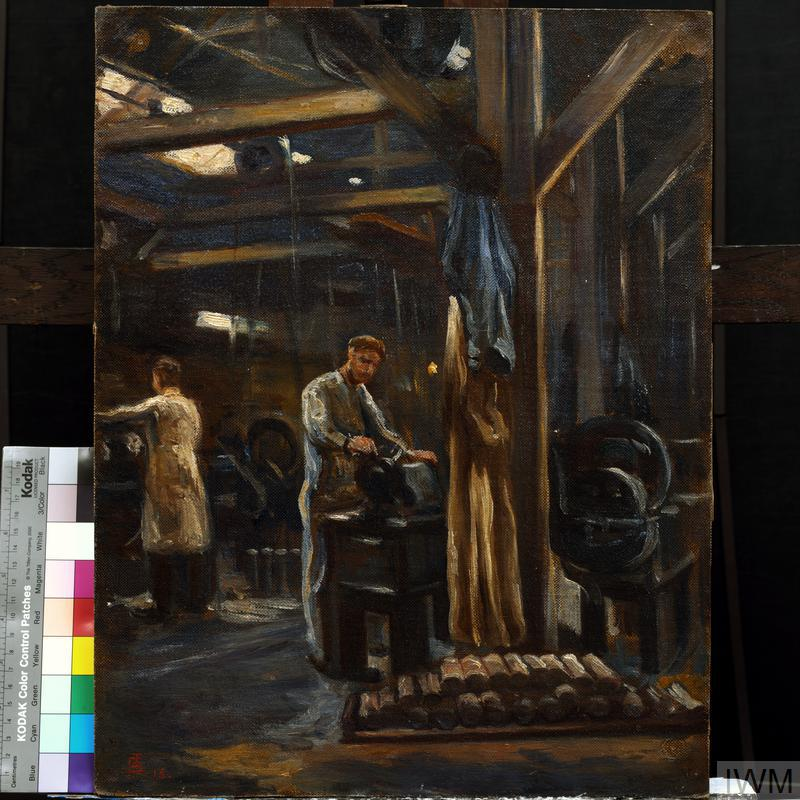 Belgian Steel Factory, Goldhawk Road, W12 - Workers image: An interior view of a munitions factory in London, with two workers standing at machinery, with a pile of artillery shells in the foreground.